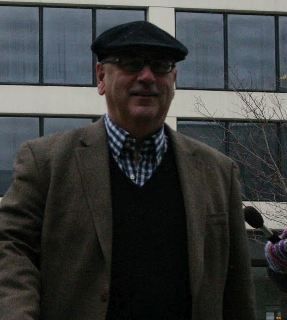 George Mason University professor F.H. Buckley photographed entering a Shimer College Board of Trustees meeting in February 2010.